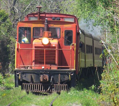 Catskill Mountain Railroad Engine No. 42, A GE 45 tonner built in 1942